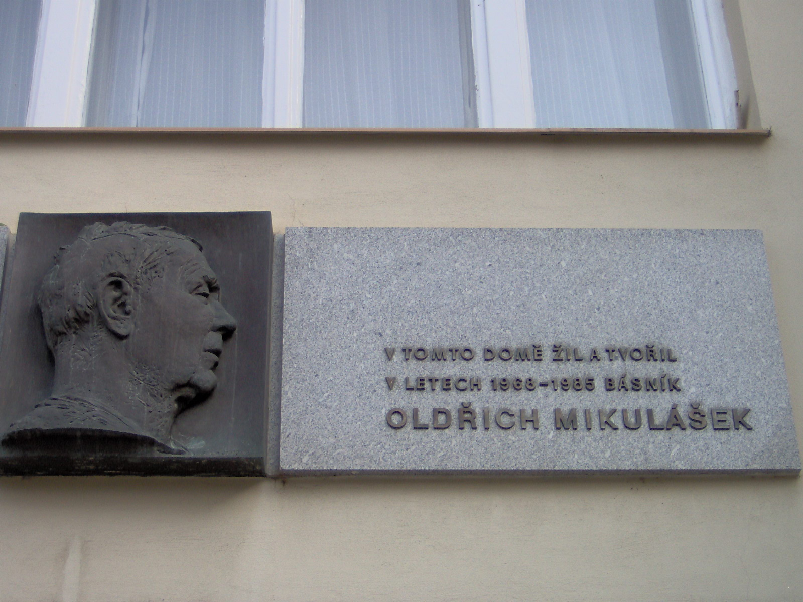 Memorial plague of czech poet Oldřich Mikulášek